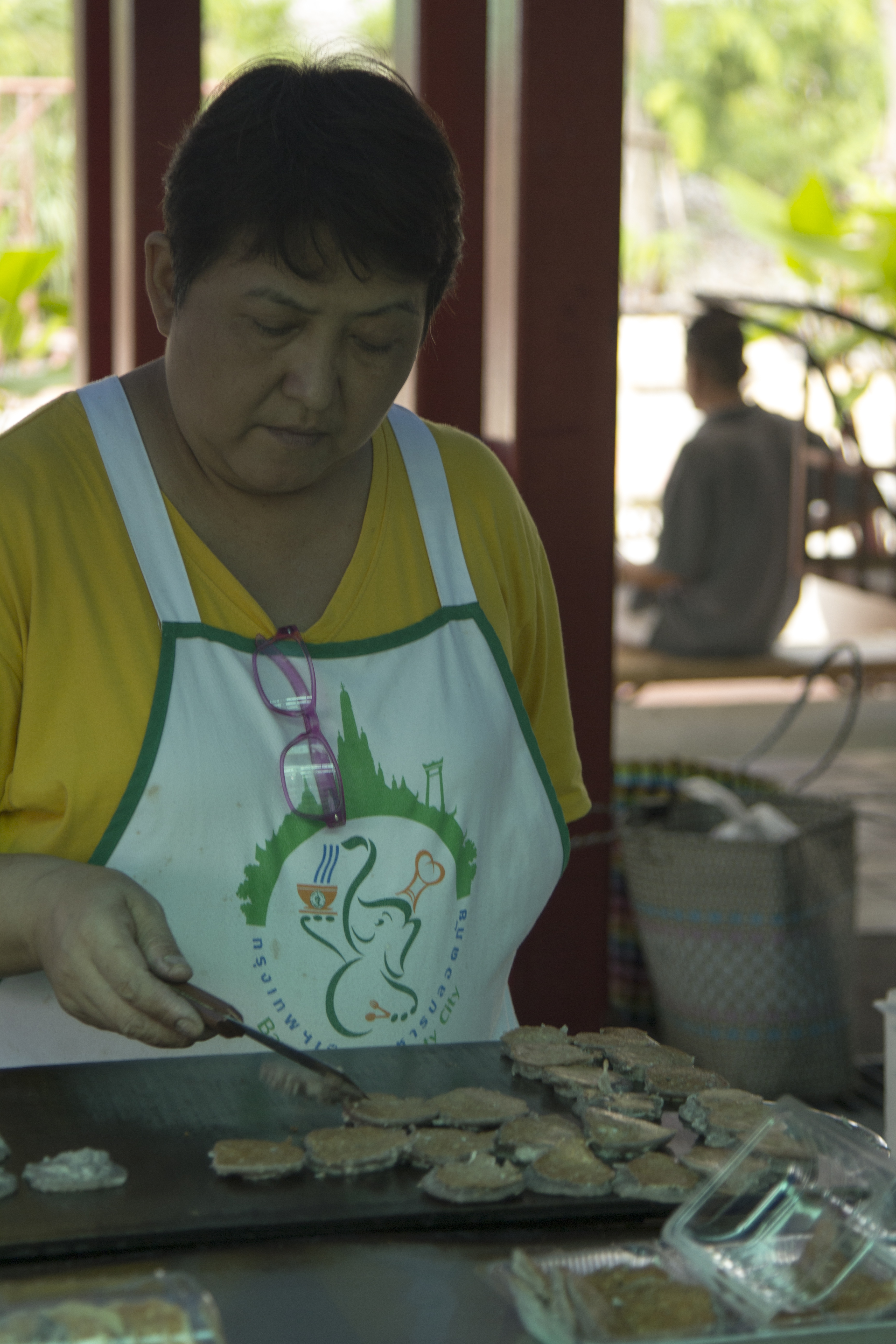 Thailand 2015